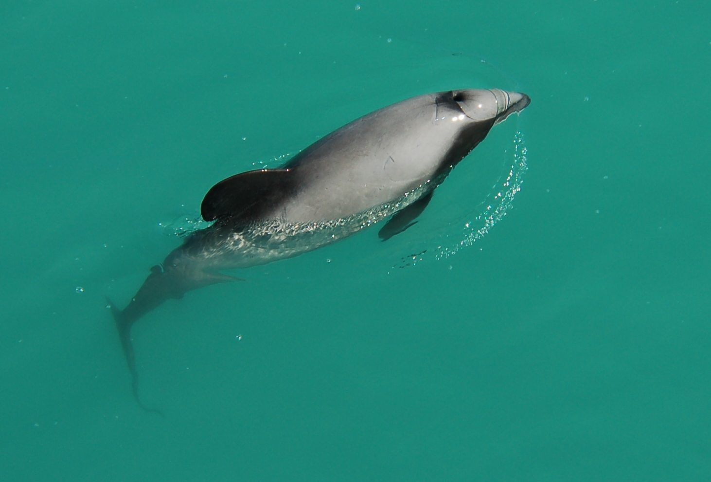 Hectors Dolphin near Akaroa